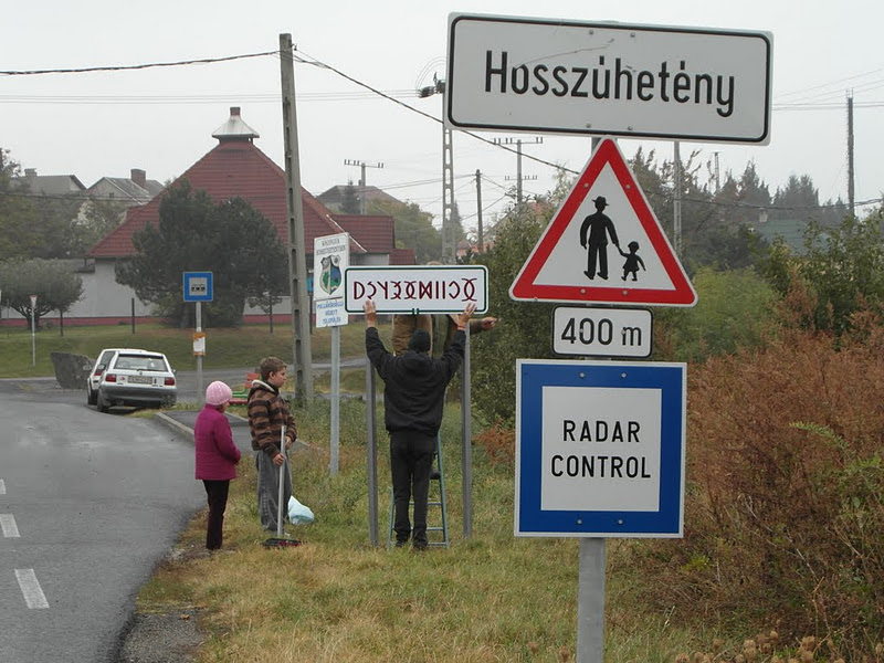 City limit tables in Hosszúhetény, Hungary. Traditional Hungarian letters (rovas) and latin script.